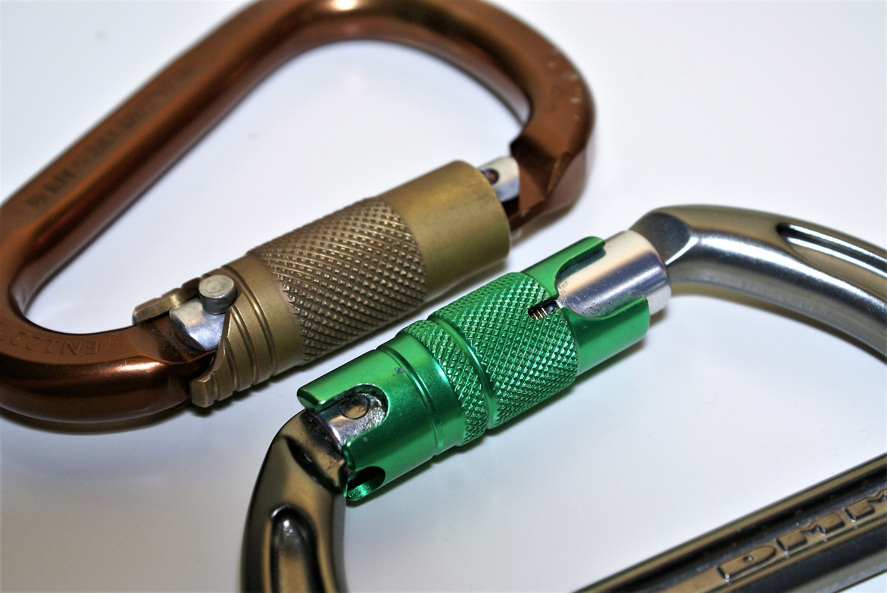 Two Carabiners with a Tri Lock system requiring the user to push the metal sleeve up before twisting it in order to open the gate.